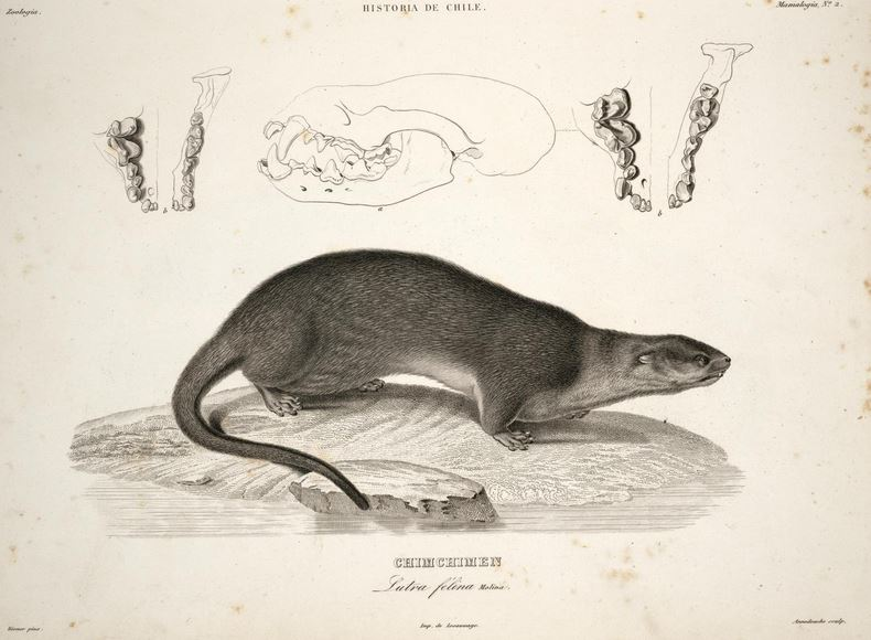 Lontra felina = Syn: Lutra felina